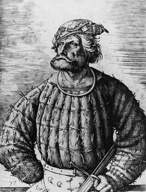 Kunz von der Rosen, court jester of emperor Maximilian I. Remark: This image is often falsely identified as a protrait of pirate Klaus Störtebeker and Florian Geyer